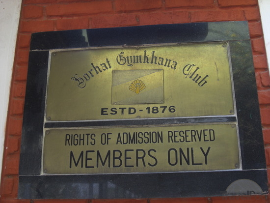 Jorhat